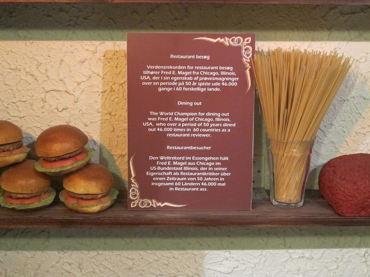 Sign acknowledging record of 46,000 meals eaten by food critic Fred E. Magel, Guinness World Records, Copenhagen